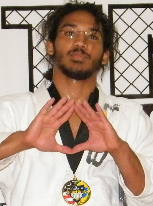 Ben Henderson (fighter)